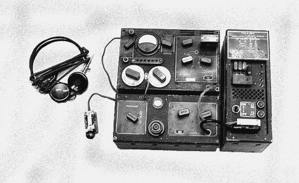 Kofferset 3 MK II portable radio transceiver for the communication between continental resistance movements and the London-based Bureau Bijzondere Opdrachten (a special forces unit of the dutch exile government), during WW2. It offered 4 or 5 crystal-controlled working frequencies in the 80-meter band and the 40-meter band. The frequency could be changed while transmitting. According to museumverbindingsdienst.nl, it was designed by maj. Brown of the Royal Corps of Signals